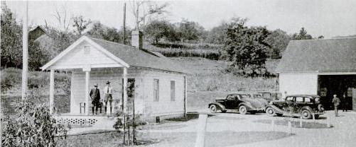 Tallulah Ranger Station near Clayton, Georgia, United States.